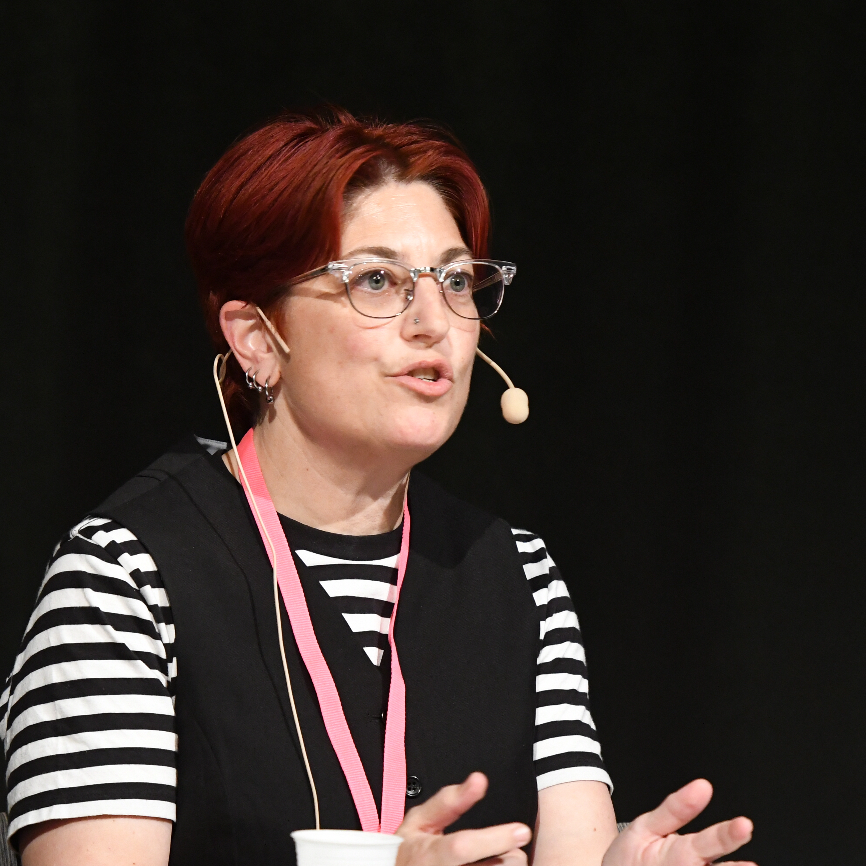 Annalee Newitz 2019